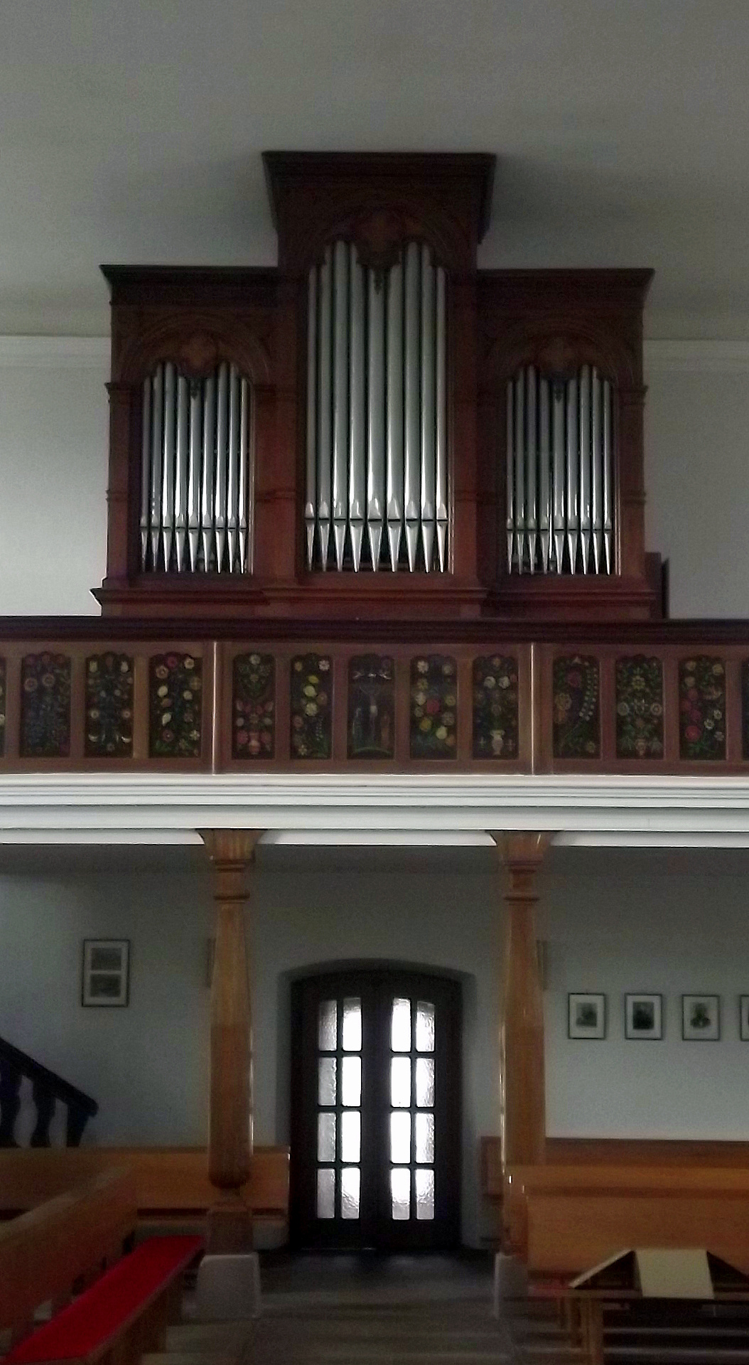 Stumm-Organ of the protestant church in Niederlinxweiler, Saarland